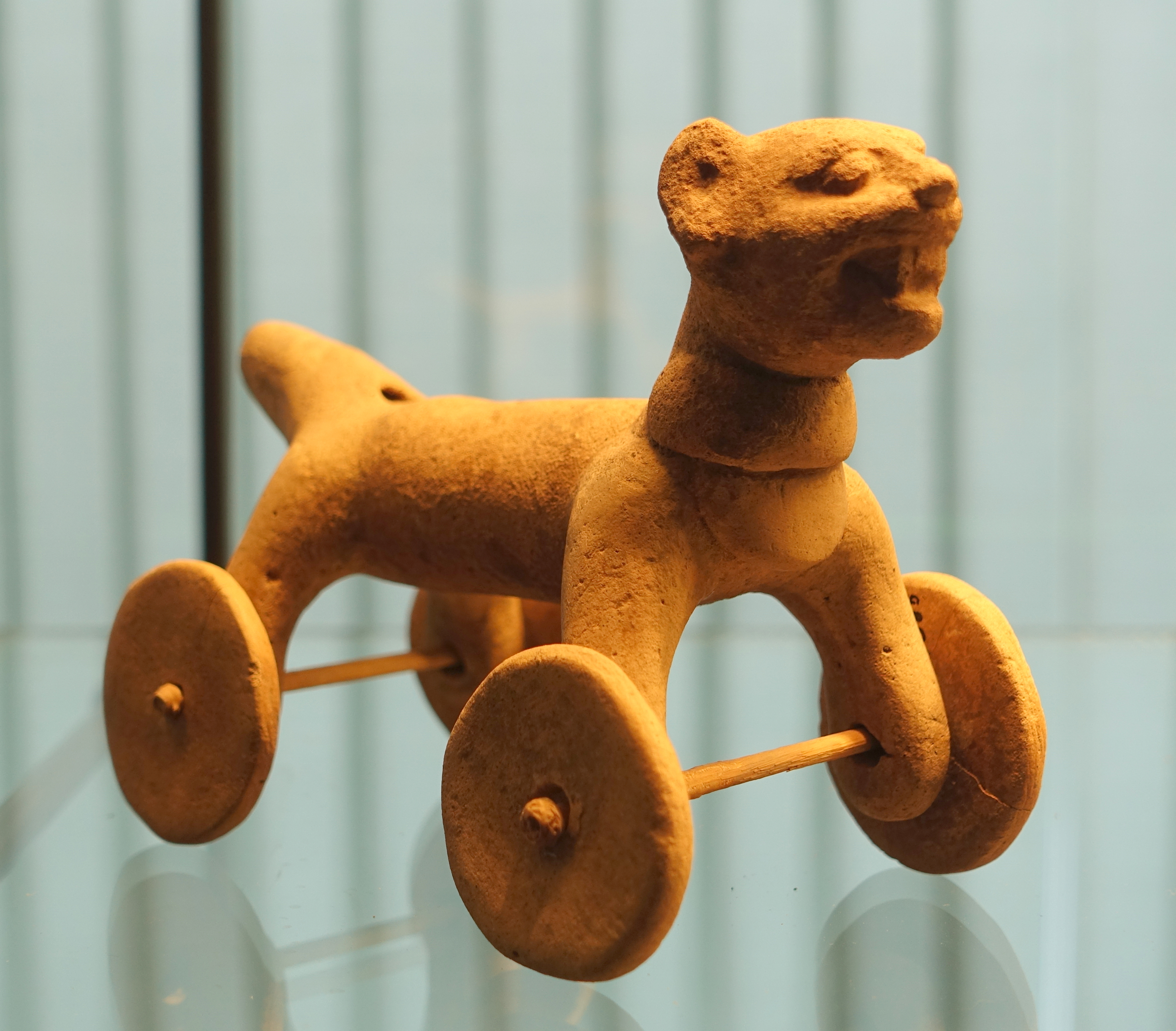 Artifact of East Mexico culture exhibited in the Ethnological Museum, Berlin, Germany. The artifact is in the public domain in Mexico: This work is in the public domain in Mexico because either its author died before 1952 (Mexico had a term of 30 years after the author's death until 1982, and no copyright term extension in 1982 or later restored copyright to expired works), or it is a work of the Mexican government and it was published more than 100 years ago (details).